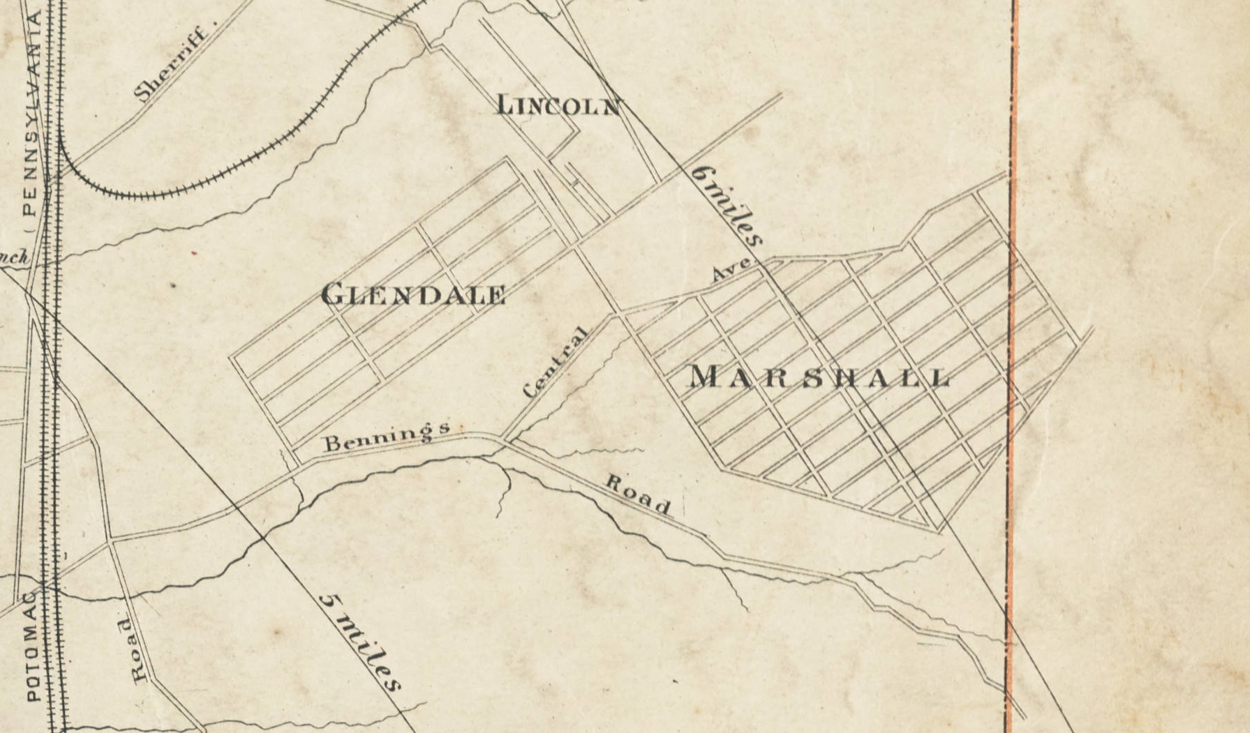 Map of the plat of the Marshall Heights subdivision of the Marshall Tract in the District of Columbia in 1886. The Marshall Heights was approved by the city on April 22, 1886.